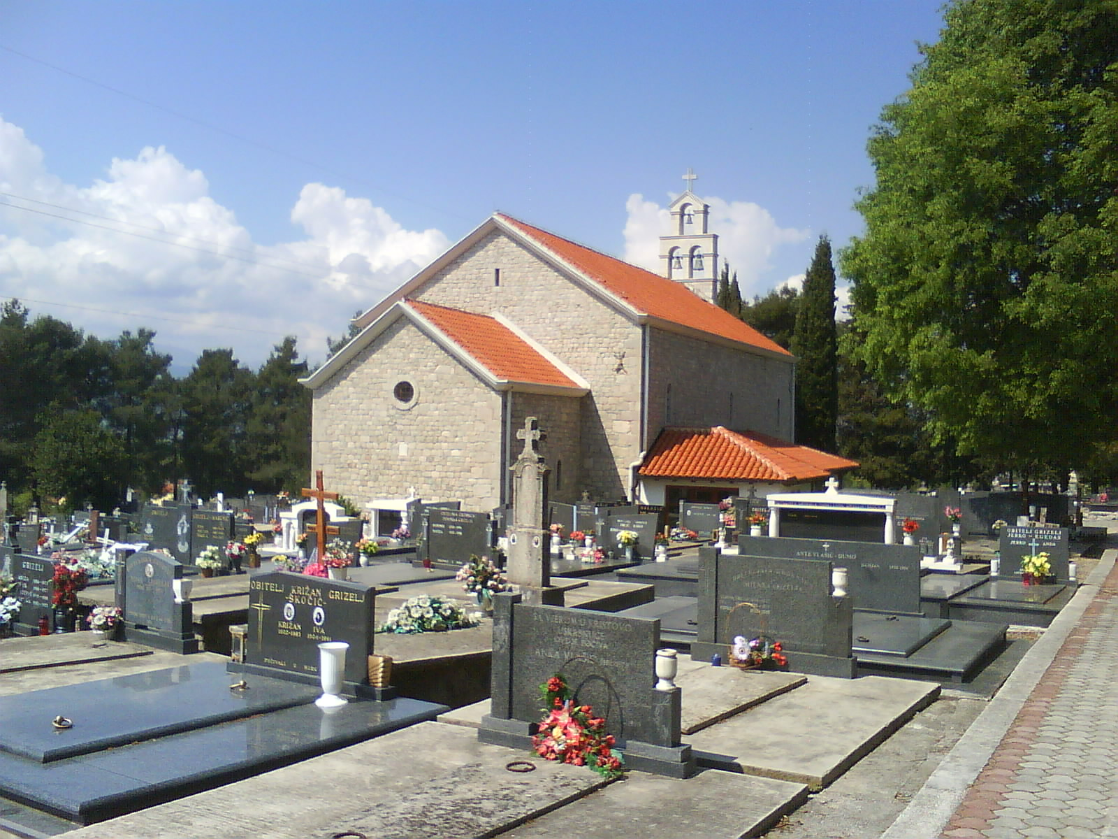 Church of St. Stephen in Sovići